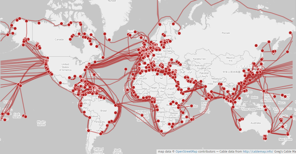 World map of submarine communication cables. cable data by Greg Mahlknecht (KML file released under GPLv3) as of 2015-07-21, world map by Openstreetmap contributors This map may be incomplete, and may contain errors. Don't rely solely on it for navigation.